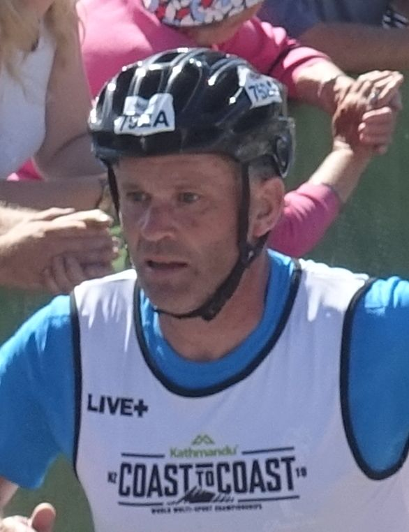 At the finish line of the 2019 Coast to Coast: Glenn McLeay